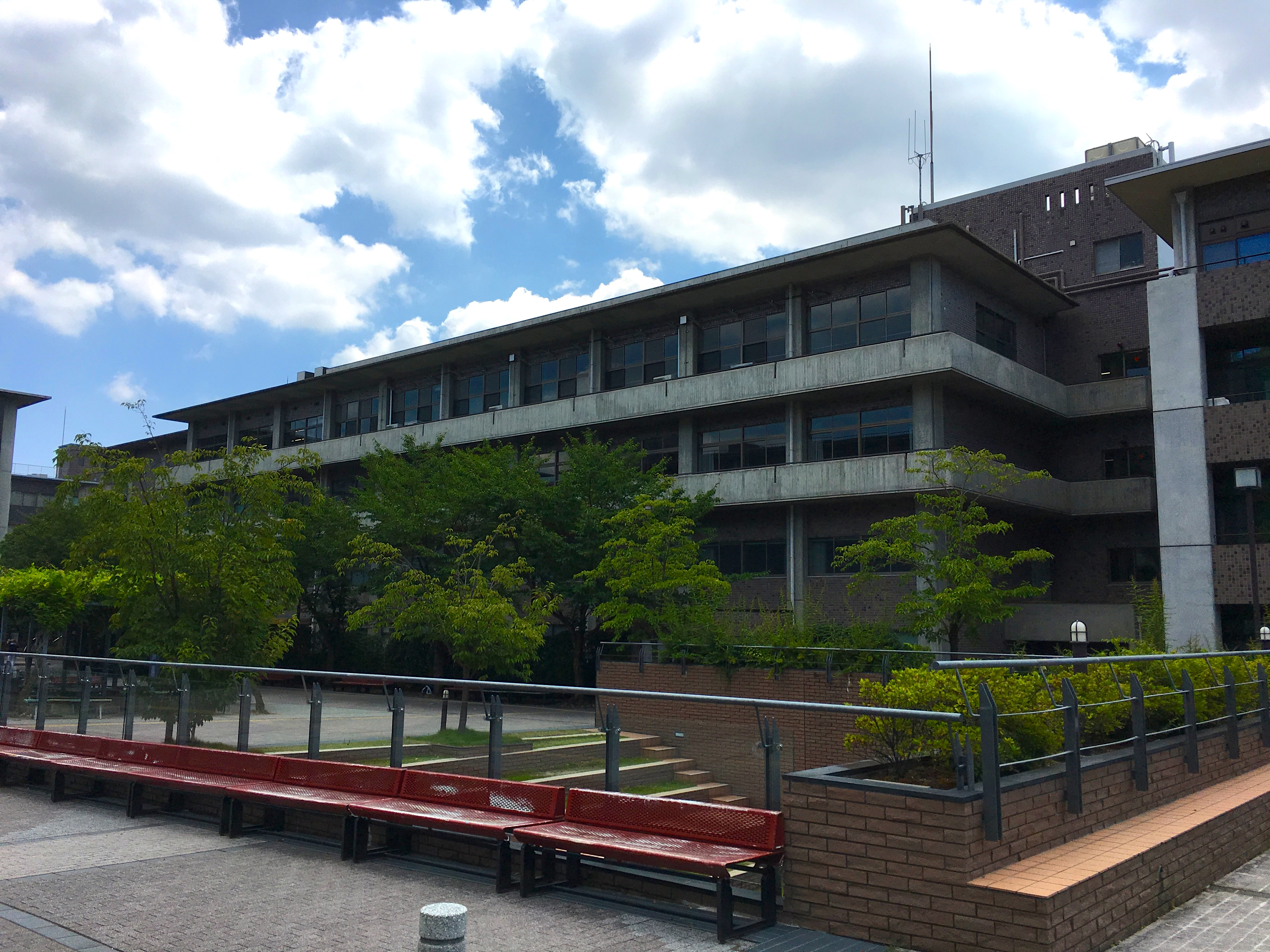 Seishinkan Hall at Kinugasa Campus of Ritsumeikan University, Kyoto, Japan